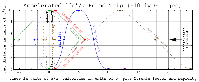 Accelerated twin roundtrip with two sequential constant proper acceleration/deceleration pairs, over a travel distance of 10 c2/α, where c is lightspeed and α is the proper acceleration magnitude.